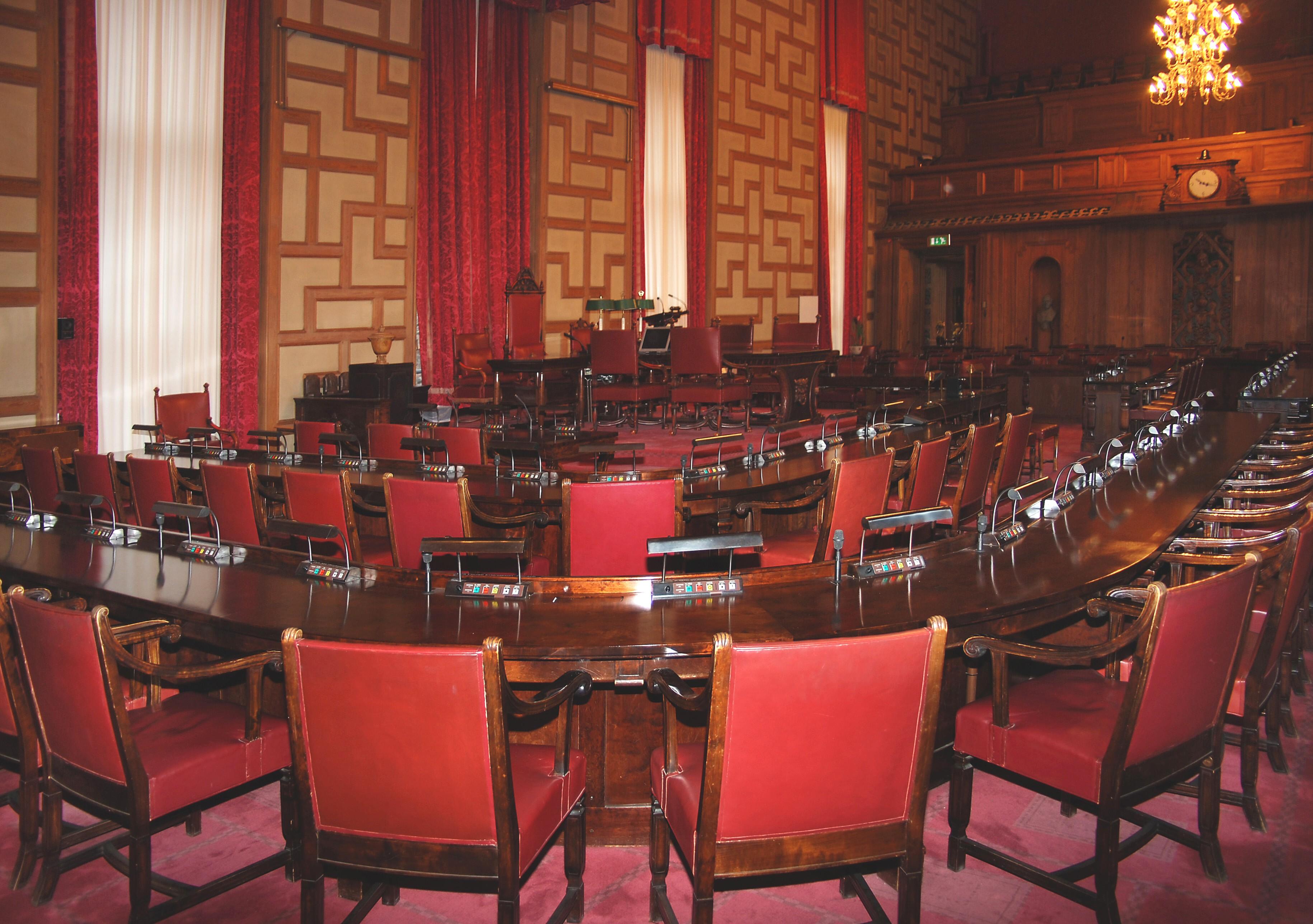 Stockholm city chambers